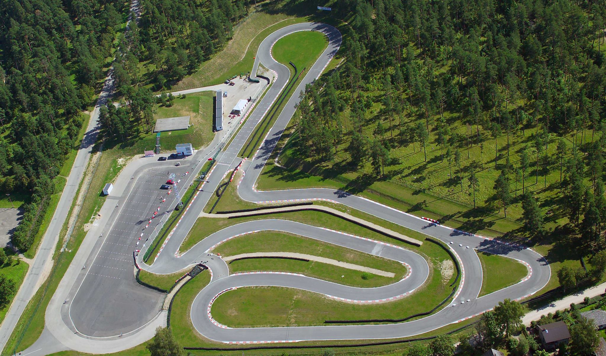 This is an Aero image of Kandavas Kartodroms karting track